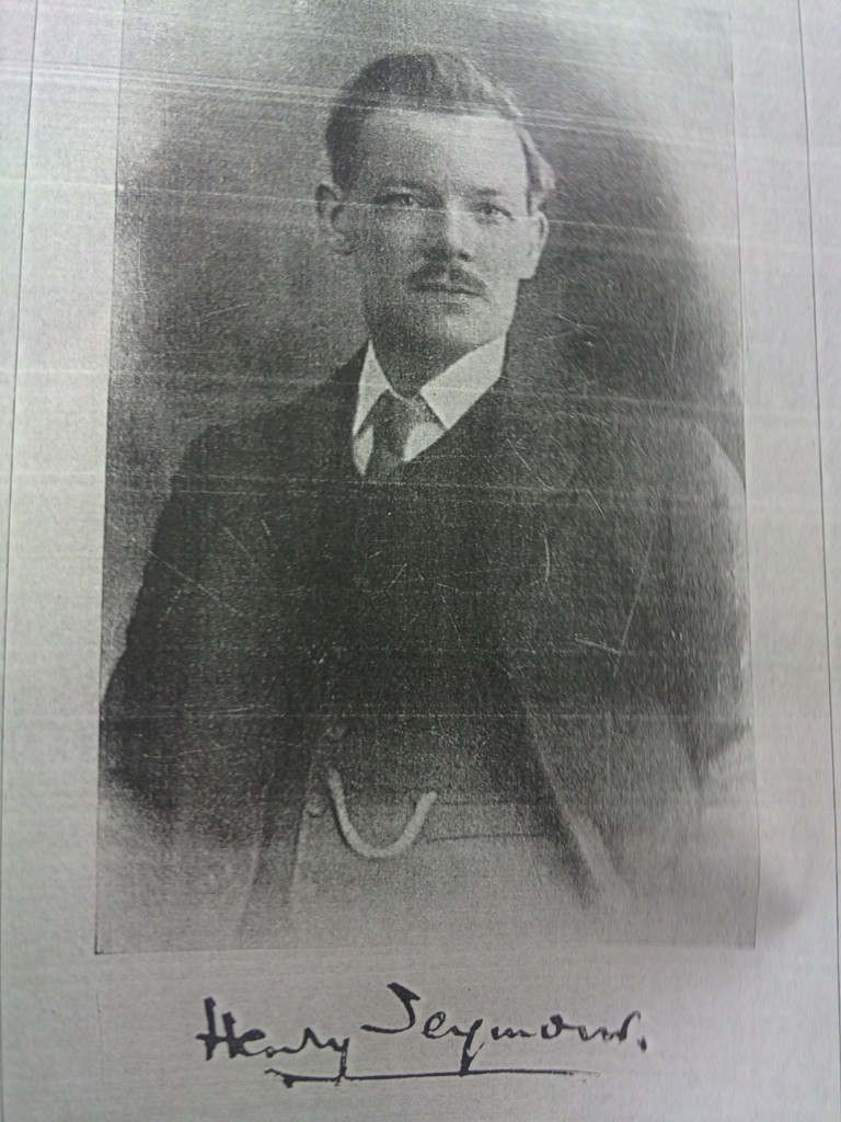 This is a copy of the Frontispiece of 'The Reproduction of Sound'